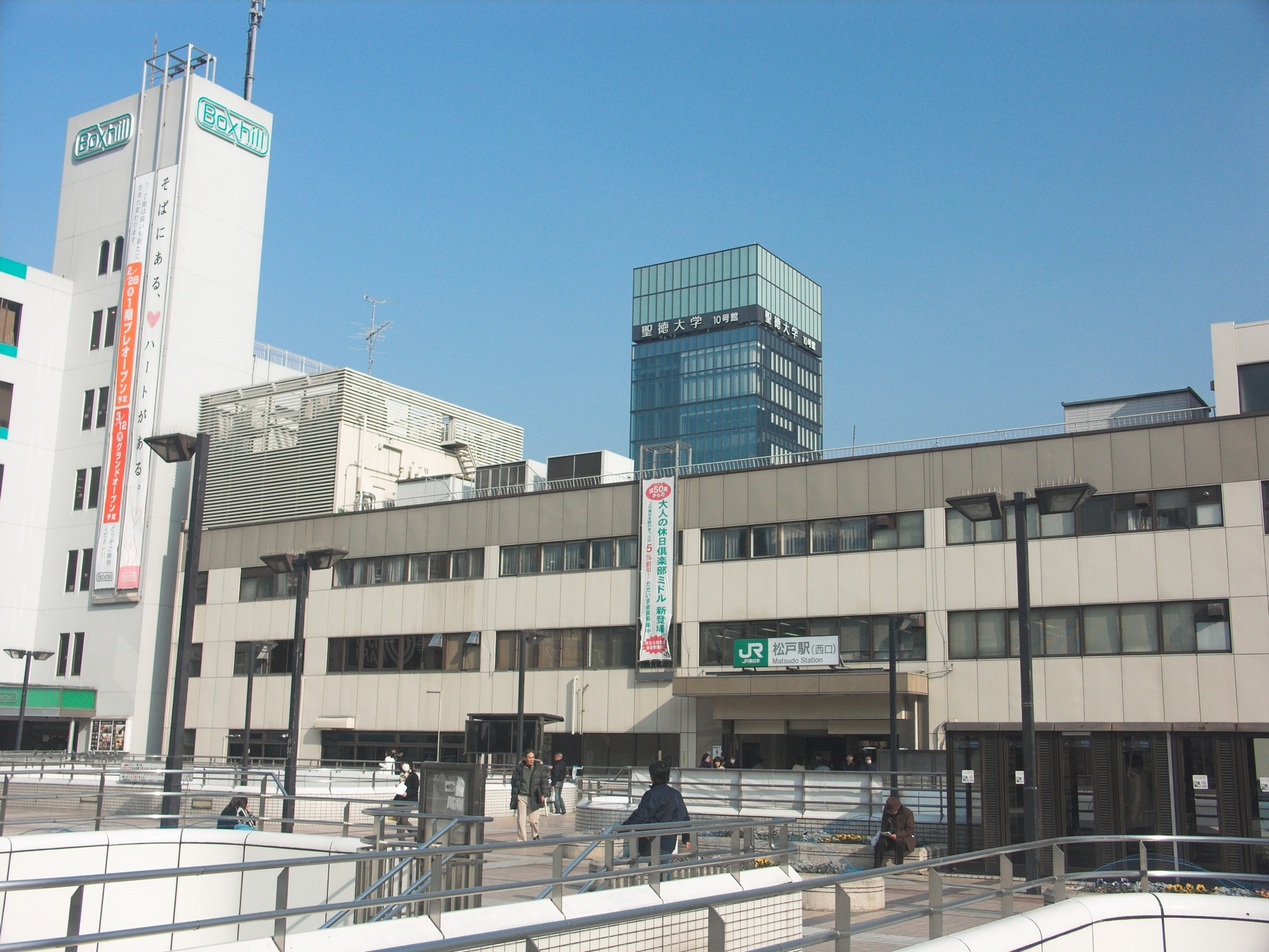 The west exit of Matsudo Station